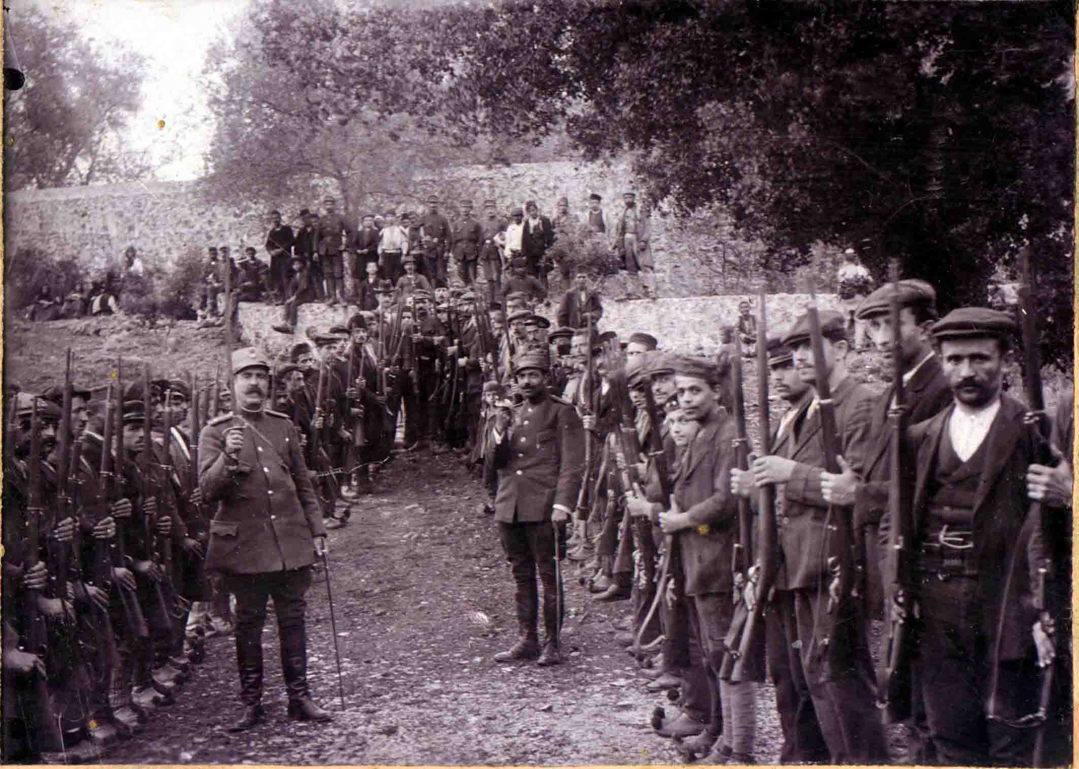 Volunteer detachment of Greek population of city Filiates, First Balkan War, Epirus 1912